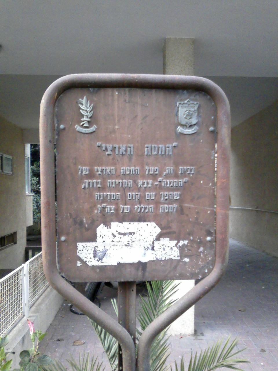 Sign at headquarters of Haganah, Tel Aviv, Israel.